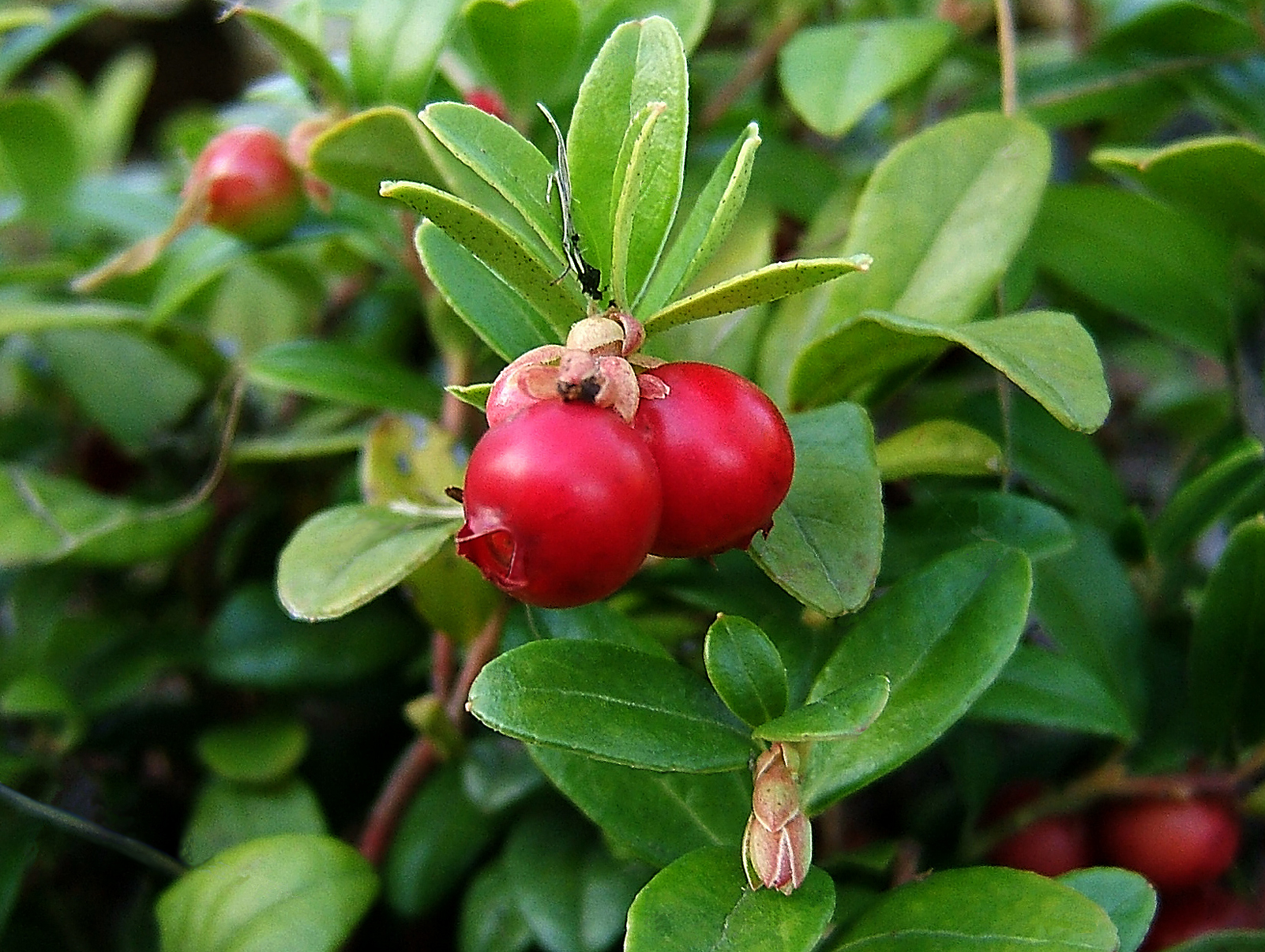 lingonberry, cowberry, foxberry, mountain cranberry, lowbush cranberry, partridgeberry